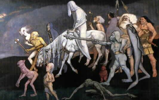 The Fomorians, John Duncan's interpretation of the sea gods of Irish mythology